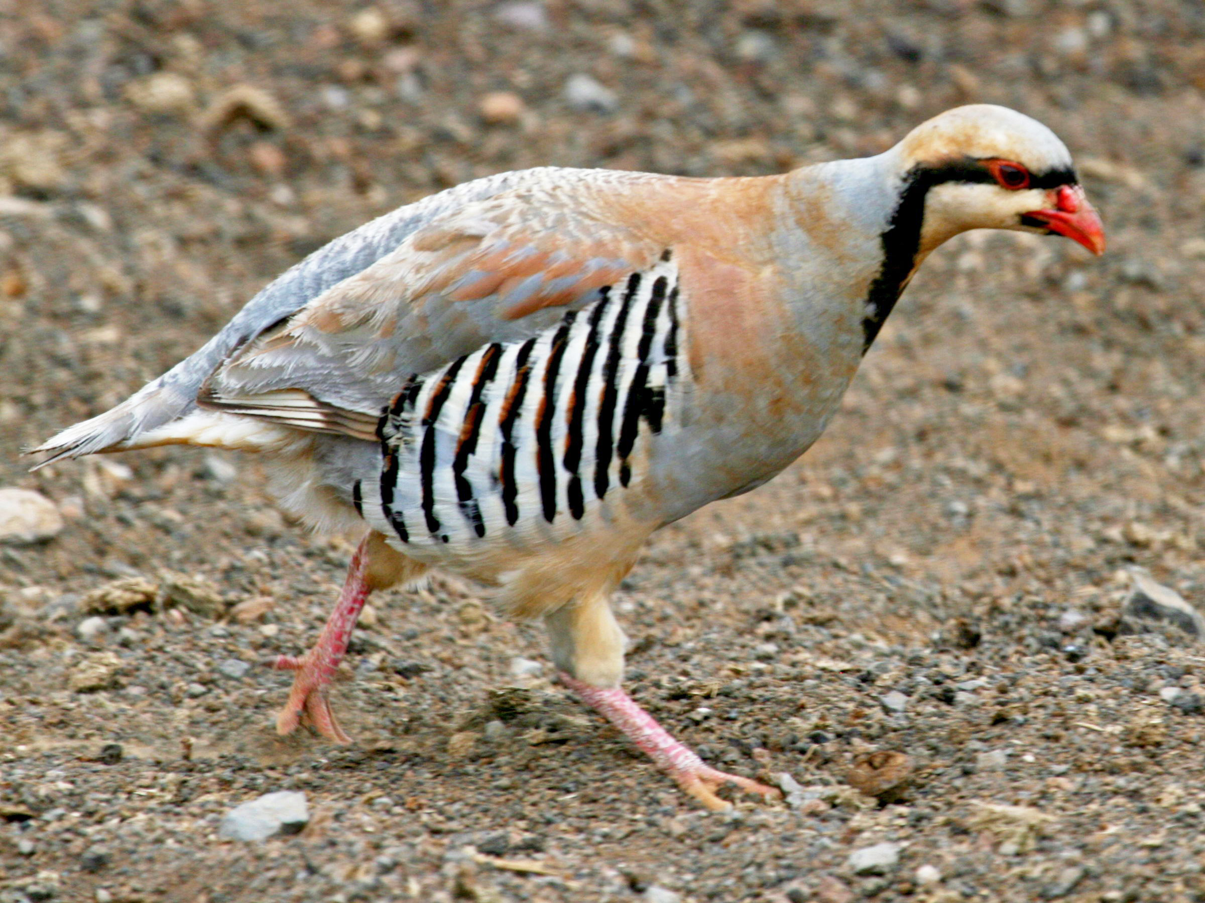 Chukar Partridge or Chukar (Alectoris chukar) - Hawaii